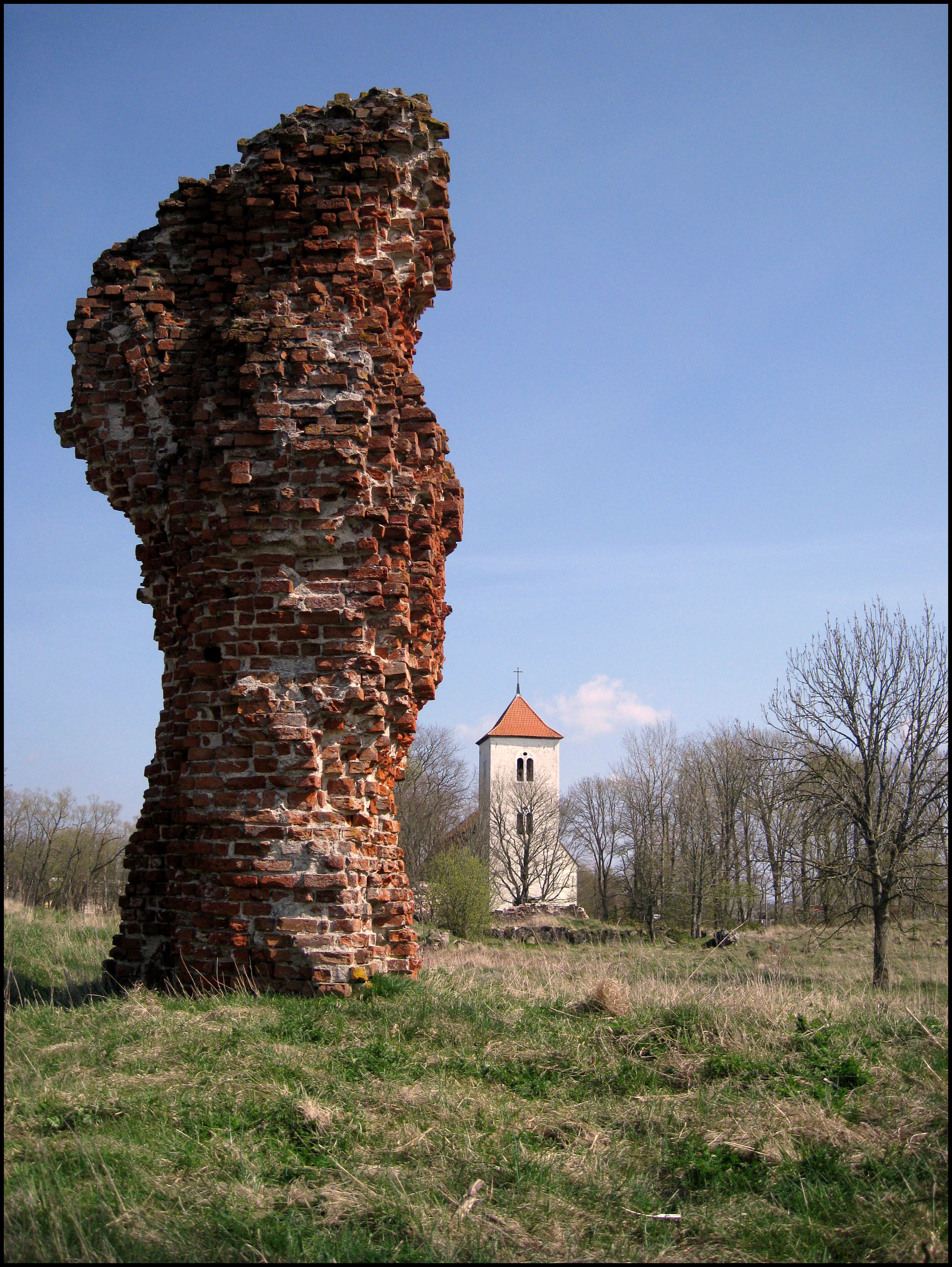 Piltene Evangelical Lutheran Church and Castle ruinsLatviešu: Piltenes evaņģēliski luteriskā baznīca un pilsdrupas